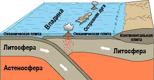 Plate tectonics diagram — showing convergence of an oceanic plate and a continental plate, and volcanism.